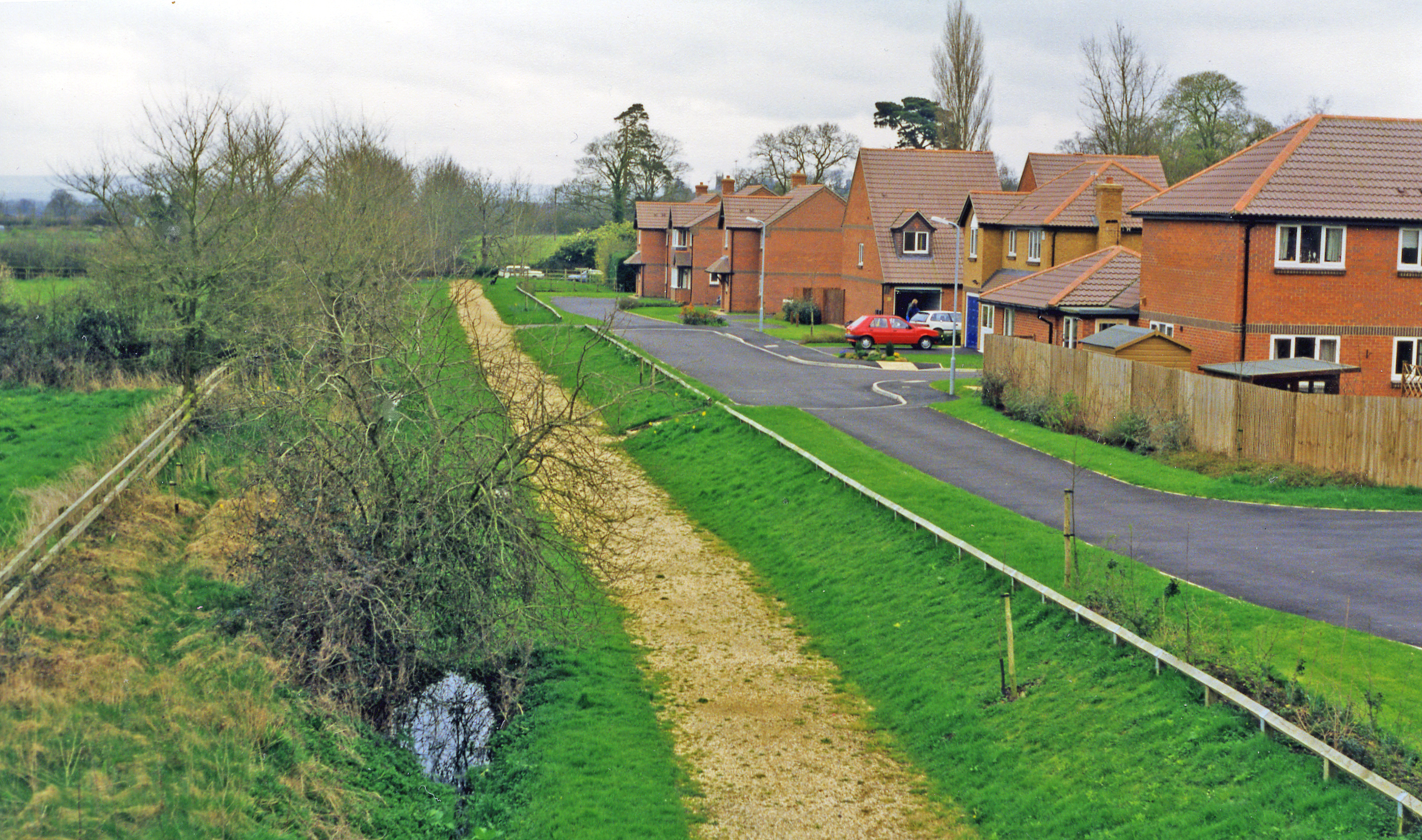 Site of Henstridge station, 1998. View SE from the A30 bridge, towards Bournemouth: ex-S&D Joint Bath - Bournemouth West line, closed 7/3/66. The station had been on the right where the new houses are, the line having been single-track over this stretch (Templecombe - Blandford). During the War (March 1944), a US Army tank-transporter fell off the bridge here onto a southbound Troup train as it passed below.